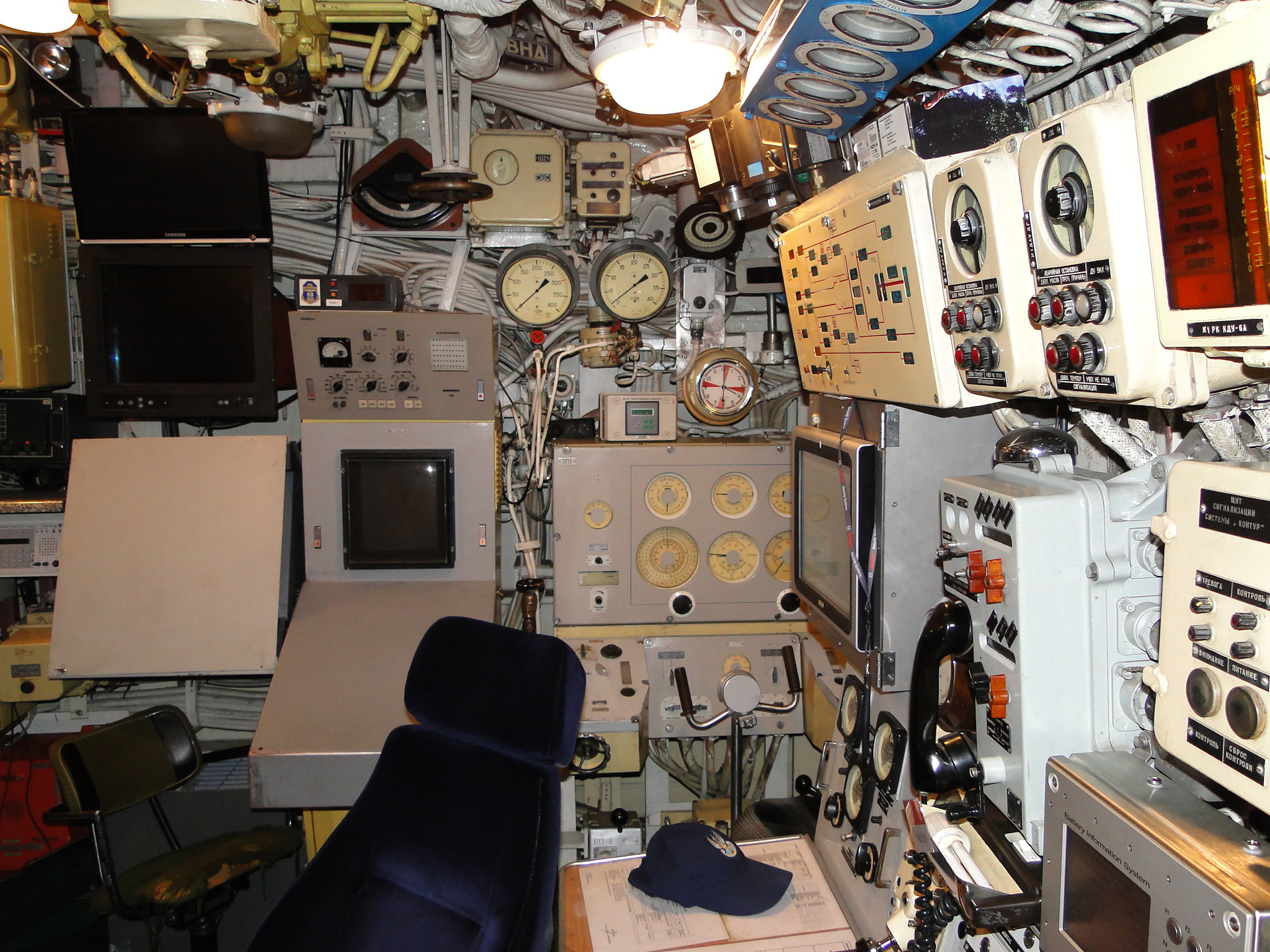 Control room of 877E class (Kilo) submarine ORP Orzeł (291)